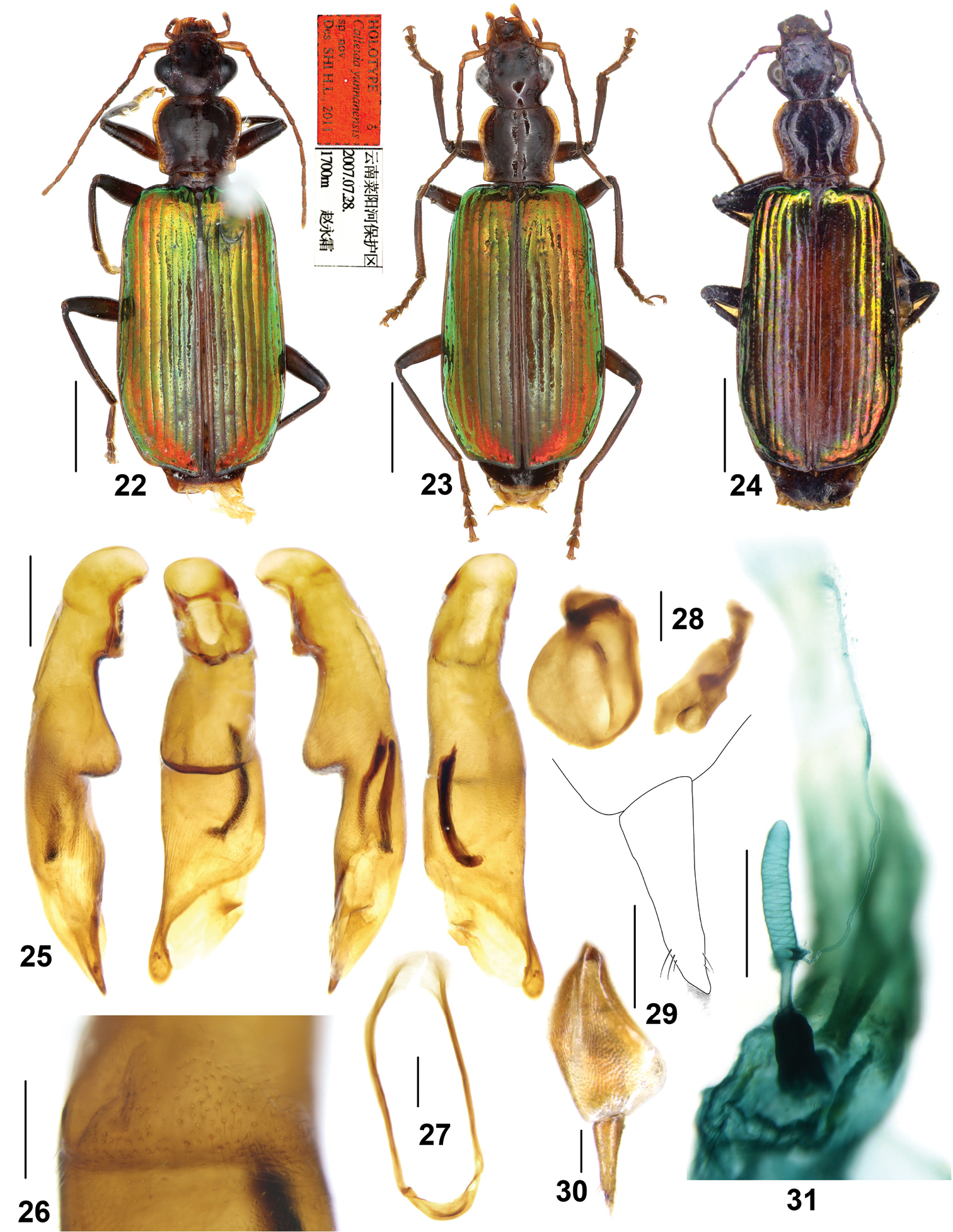 Figures 22–31; Calleida yunnanensis sp. n. 22 Habitus and labels of holotype (male, Yunnan, IZAS) 23 Habitus (female paratype, Yunnan, IZAS) 24 Habitus (female paratype, Laos, NHML) 25 Median lobe of aedeagus, right-lateral, ventral, left-lateral, and dorsal views (holotype) 26 Cuneiform projection on median lobe, ventral view (holotype) 27 Male sternite IX (holotype) 28 Left and right parameres of aedeagus (holotype) 29 Gonocoxite II (paratype, Yunnan, IZAS) 30 gonocoxa (paratype, Yunnan, IZAS) 31 Female reproductive tract (paratype, Yunnan, IZAS). Scale bars: 2.0 mm (22–24), 0.5 mm (25, 27, 31), 0.2 mm (26, 28, 30), 0.1 mm (29).